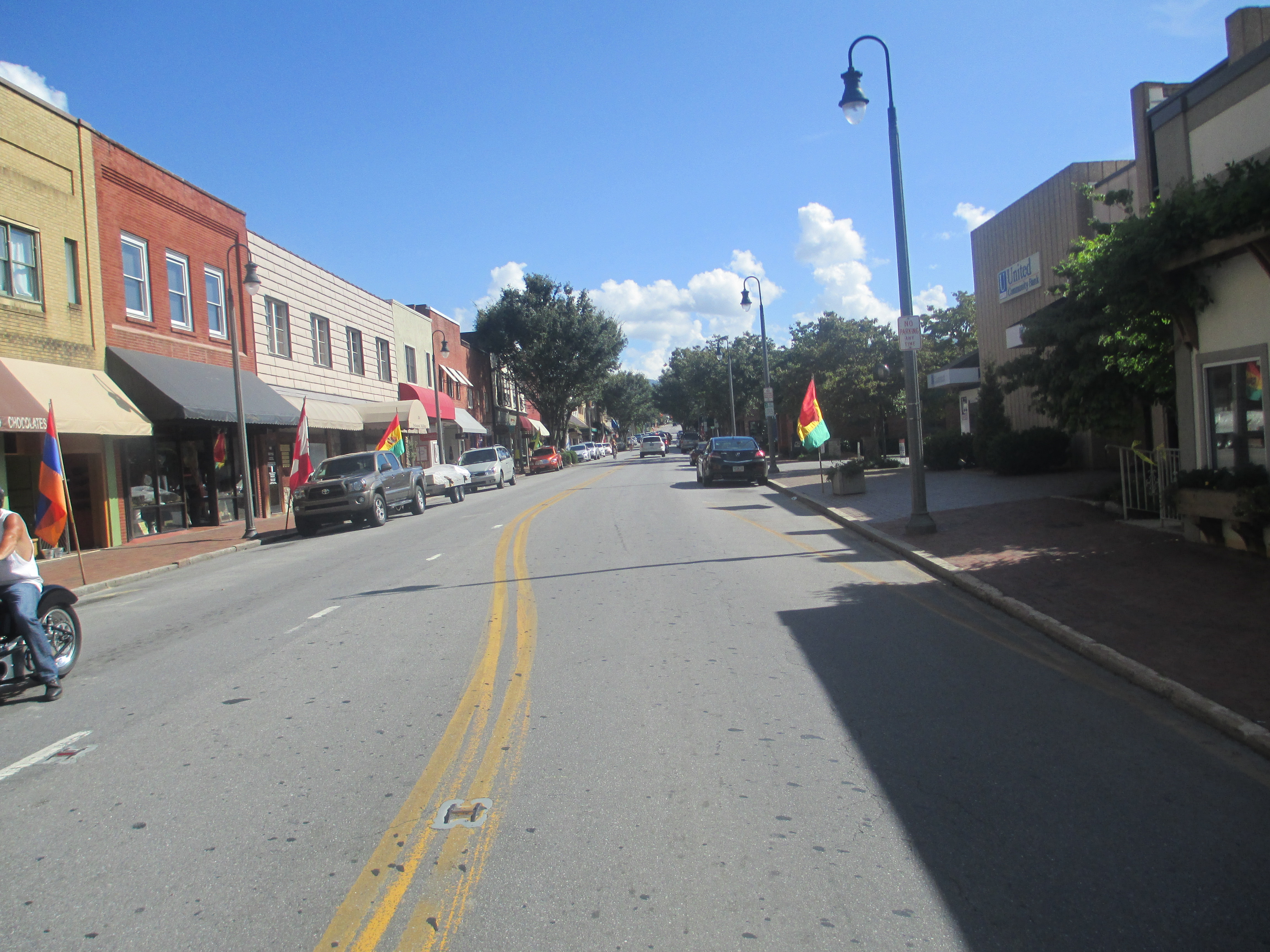 I took photo with Canon camera in Waynesville, NC.